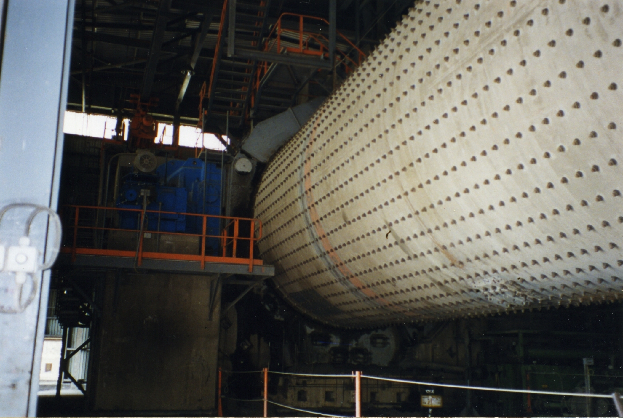 Drive end of 10,000 kW cement mill